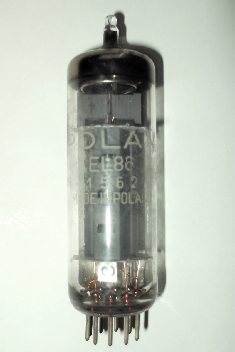 EL86 power pentode